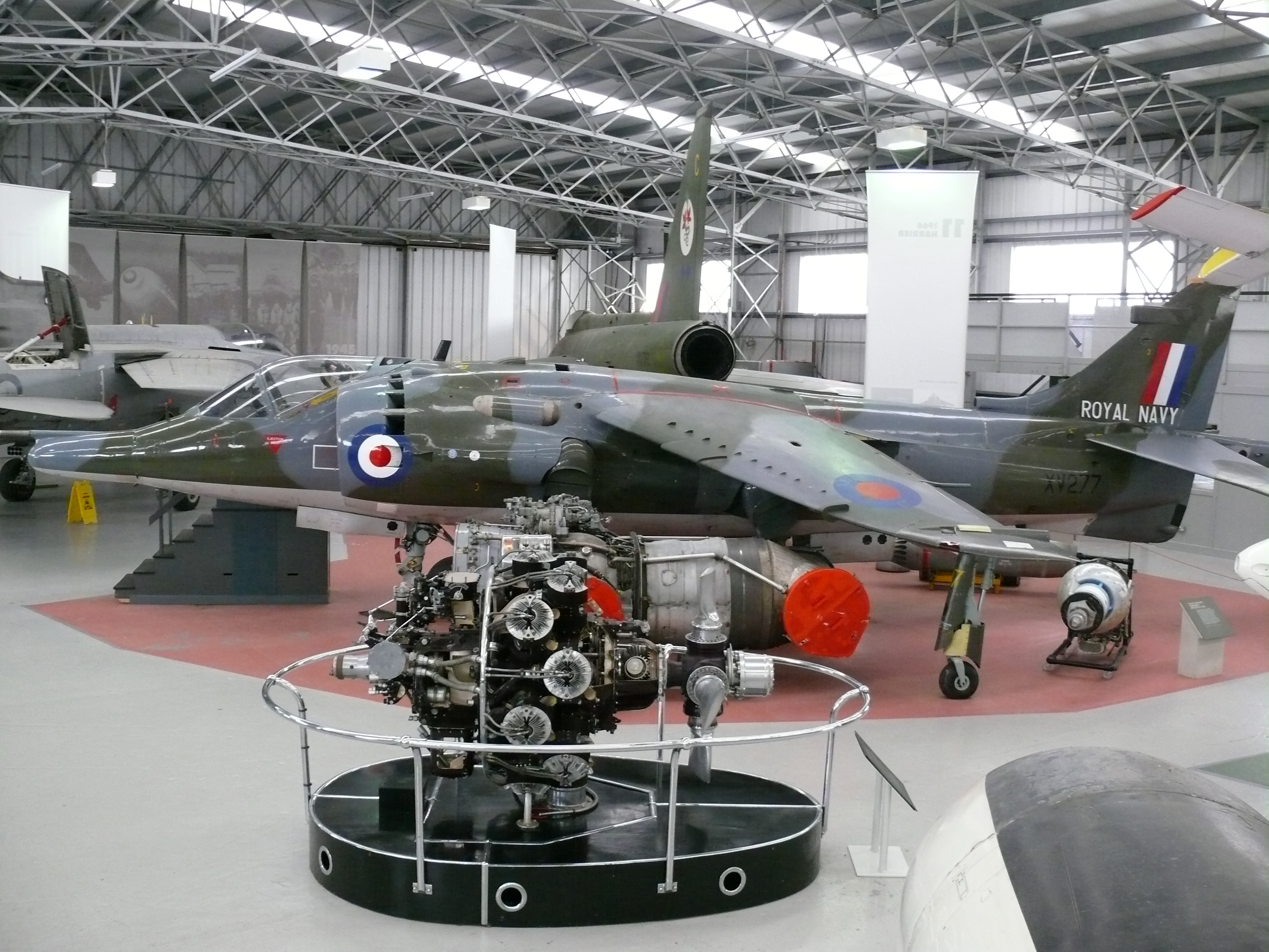 P.1127(RAF) XV277 (Harrier DB.3, built 1966), the second pre-production Harrier and the oldest Harrier in existence, in the National Museum of Flight in East Fortune, East Lothian, Scotland. It was purchased by National Museums Scotland in 2000. Museum Number EF.2000.1